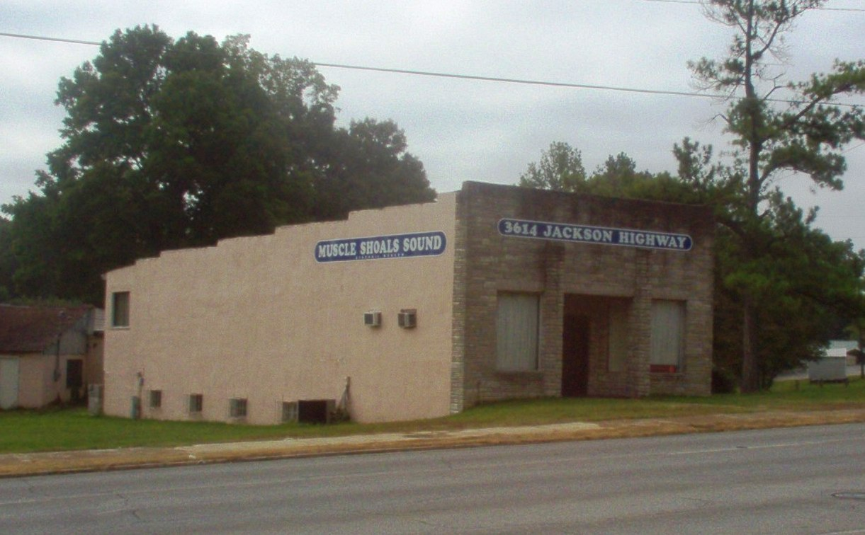 Original Muscle Shoals Sound Building at 3614 Jackson Highway